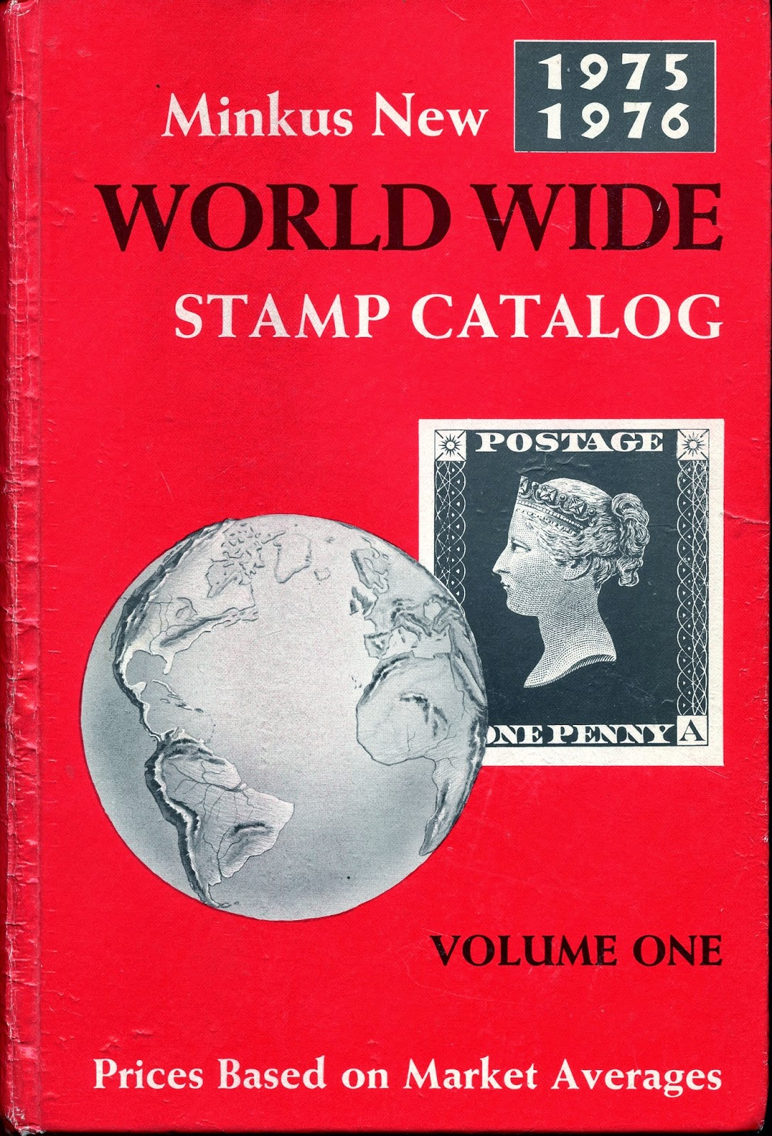 Cover of the Minkus New 1975/1976 World-Wide Stamp Catalog depicting Penny Black.